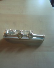 Image of "Trombino's" flute.